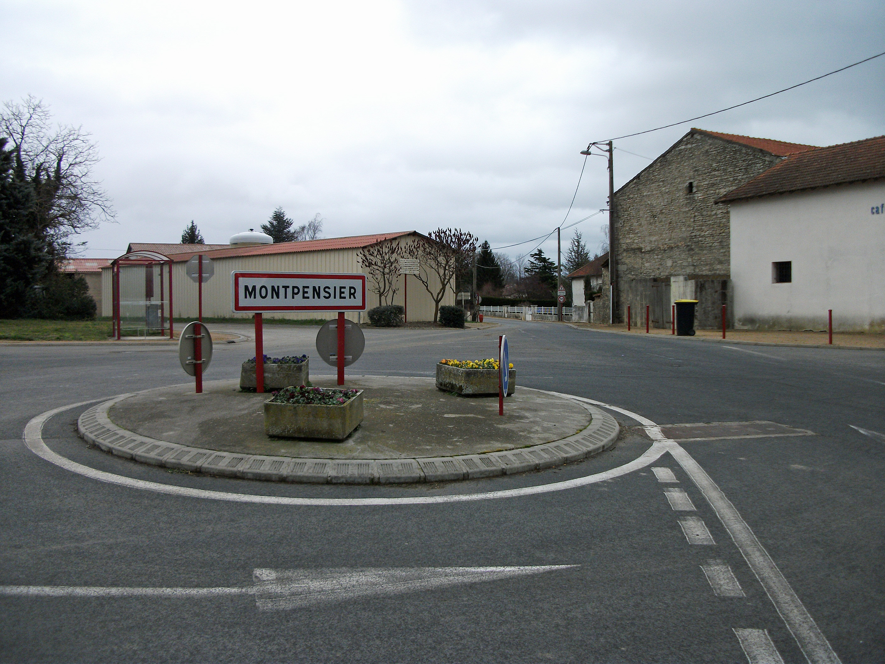 Entrance of Montpensier from departmental road 2009 (communal road 21) [10052]